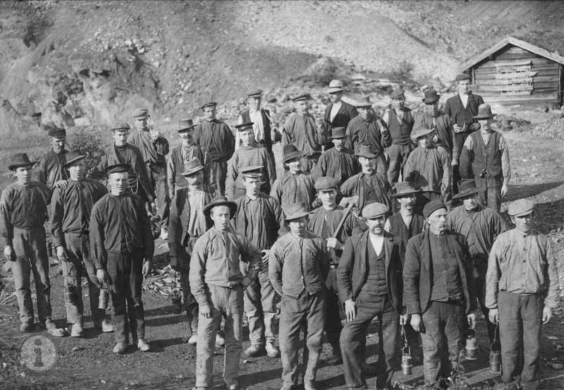 Workers of Dragset Verk in Meldal, Sør-Trøndelag, Norway.